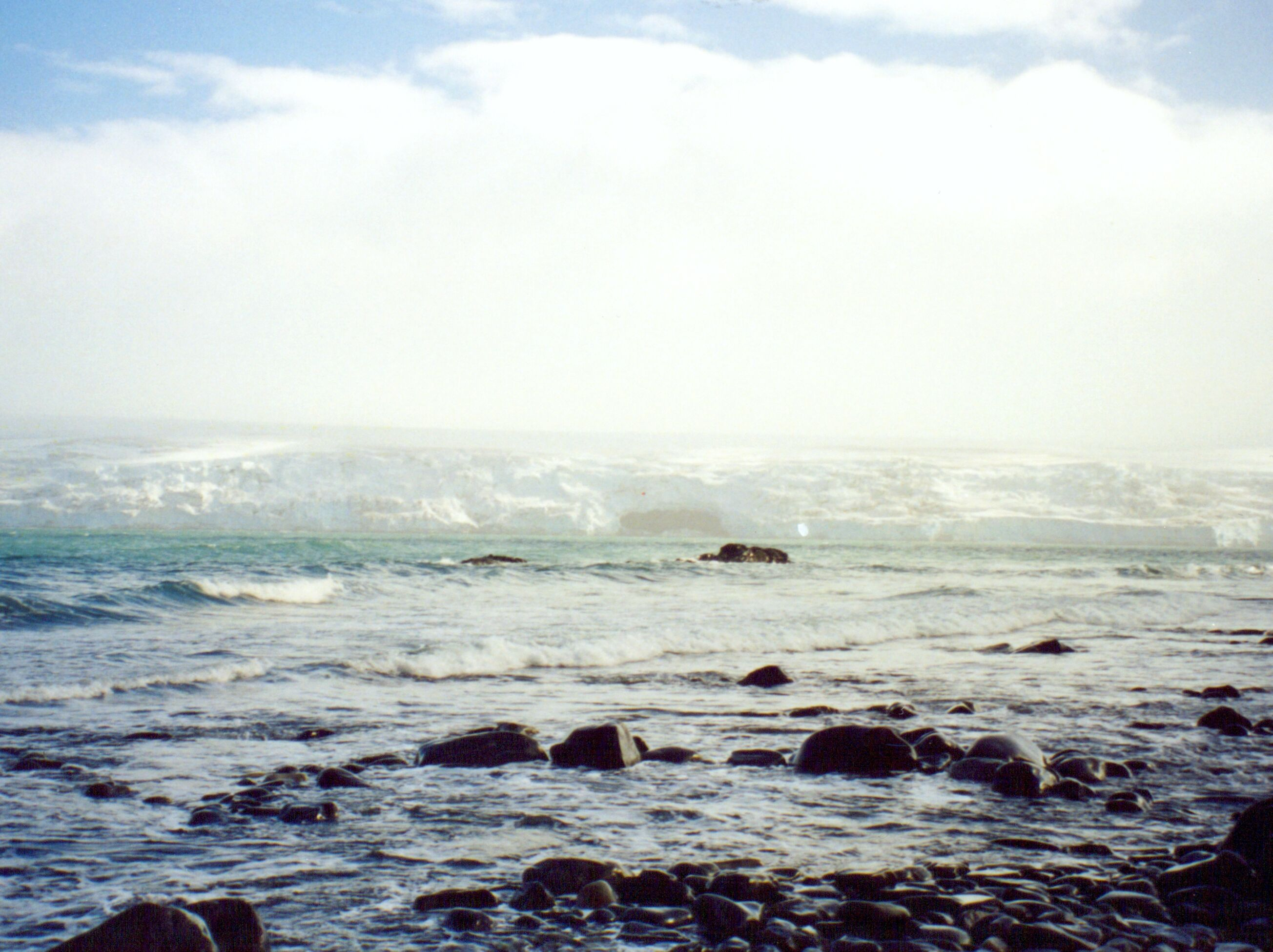 Vergilov Rocks from Bulgarian Beach, Livingston Island, South Shetland Islands, Antarctica